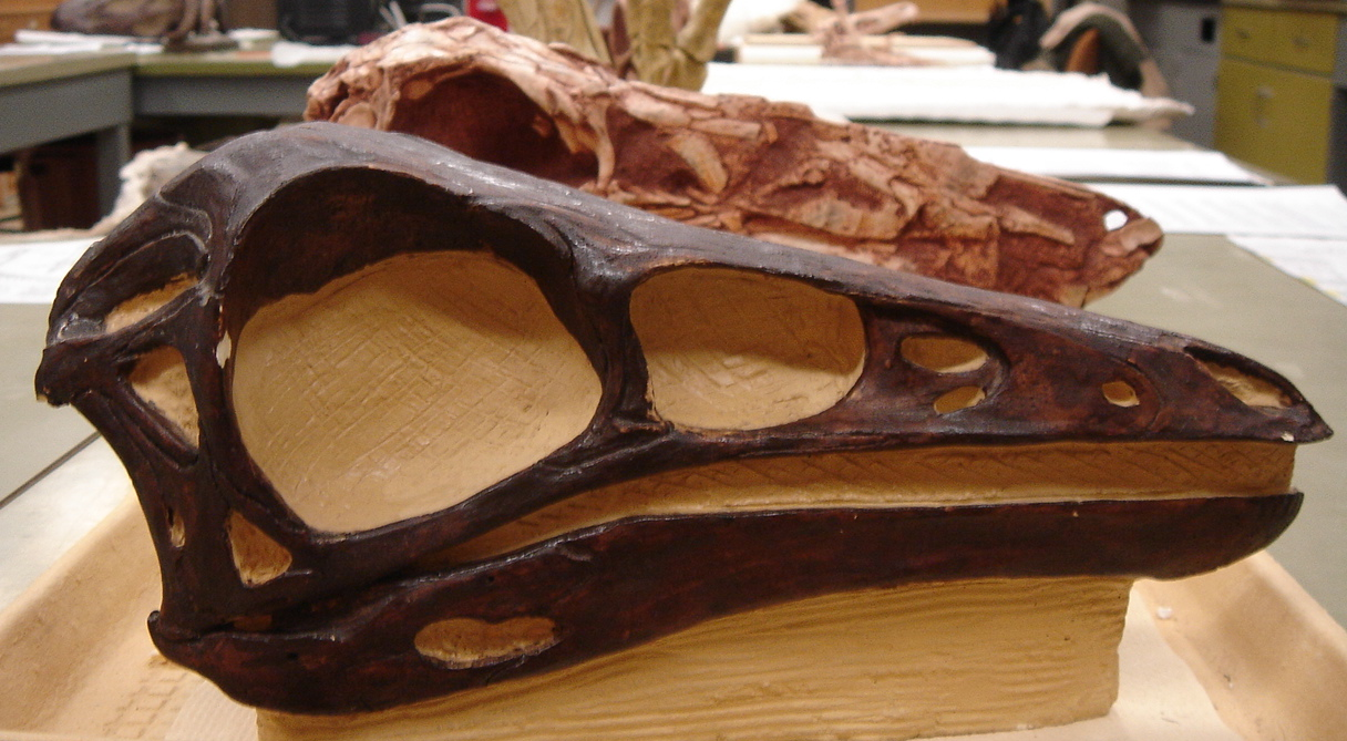 Skull of Dromiceiomimus